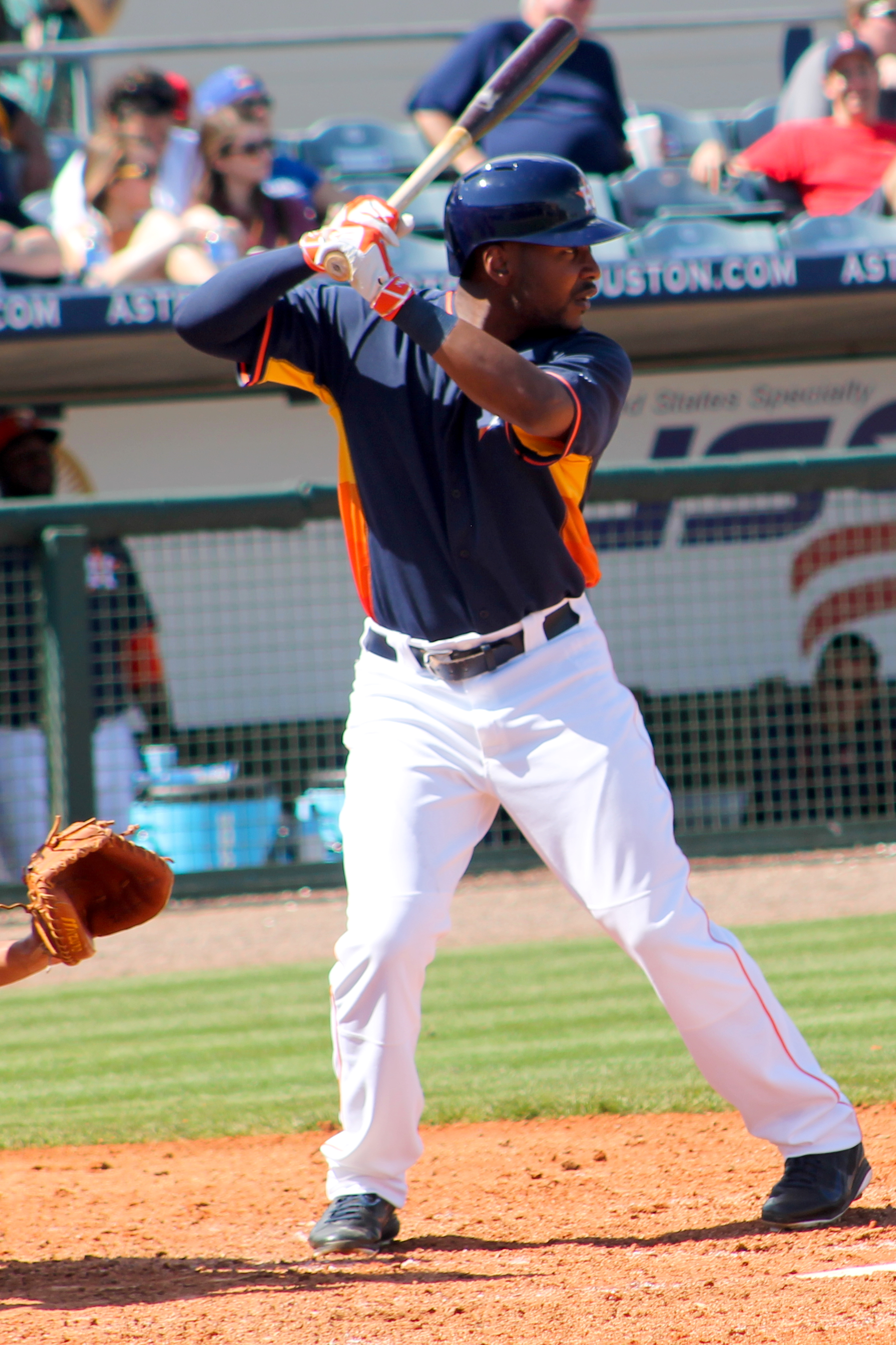 Professional baseball player L. J. Hoes at spring training in 2015